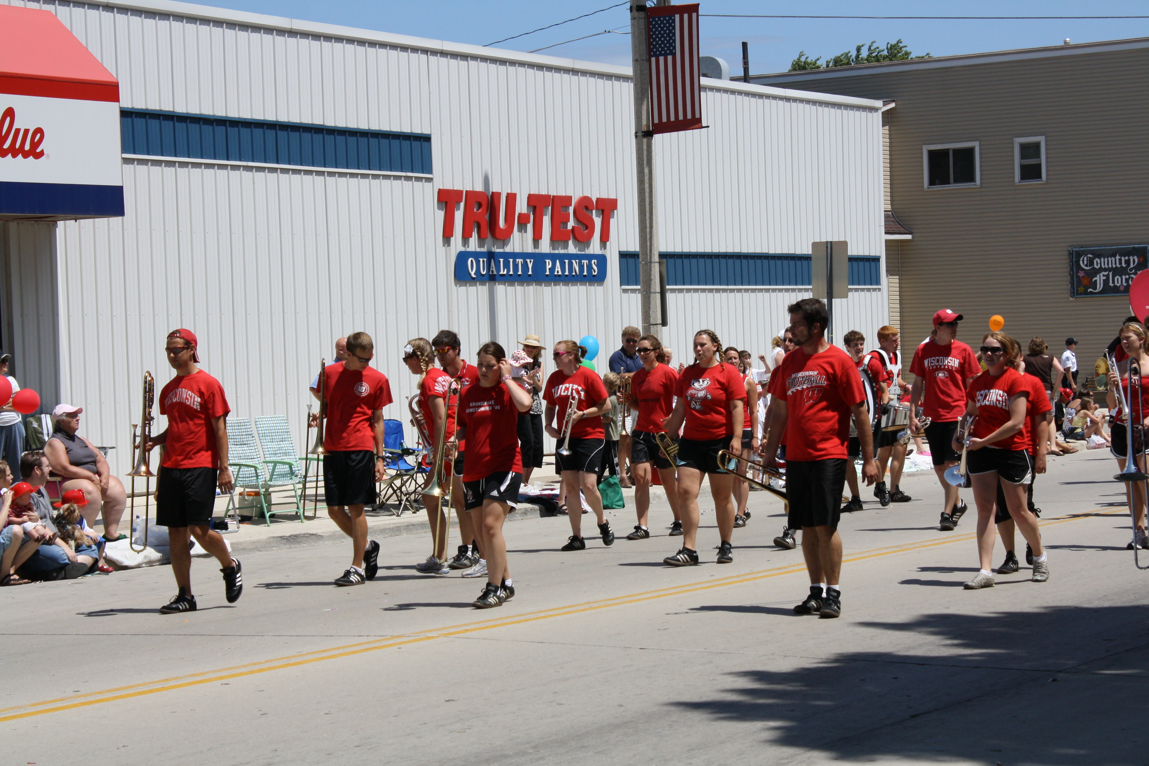 The University of Wisconsin Marching Band marching in the New Holstein, Wisconsin parade.